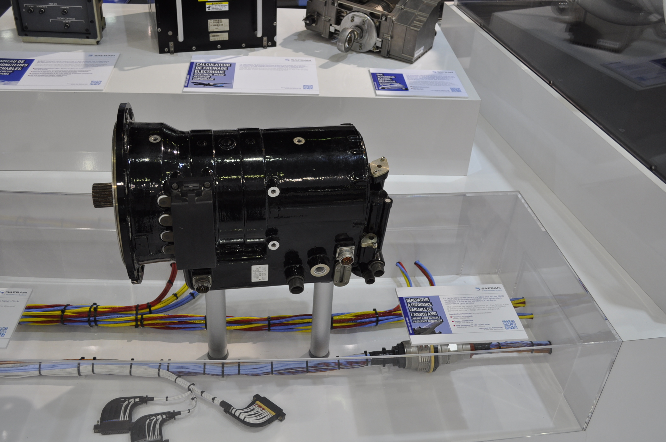 Airbus A380 variable frequency generator Safran Labinal (now Safran Electrical & Power) Paris Air show 2015, Safran stand